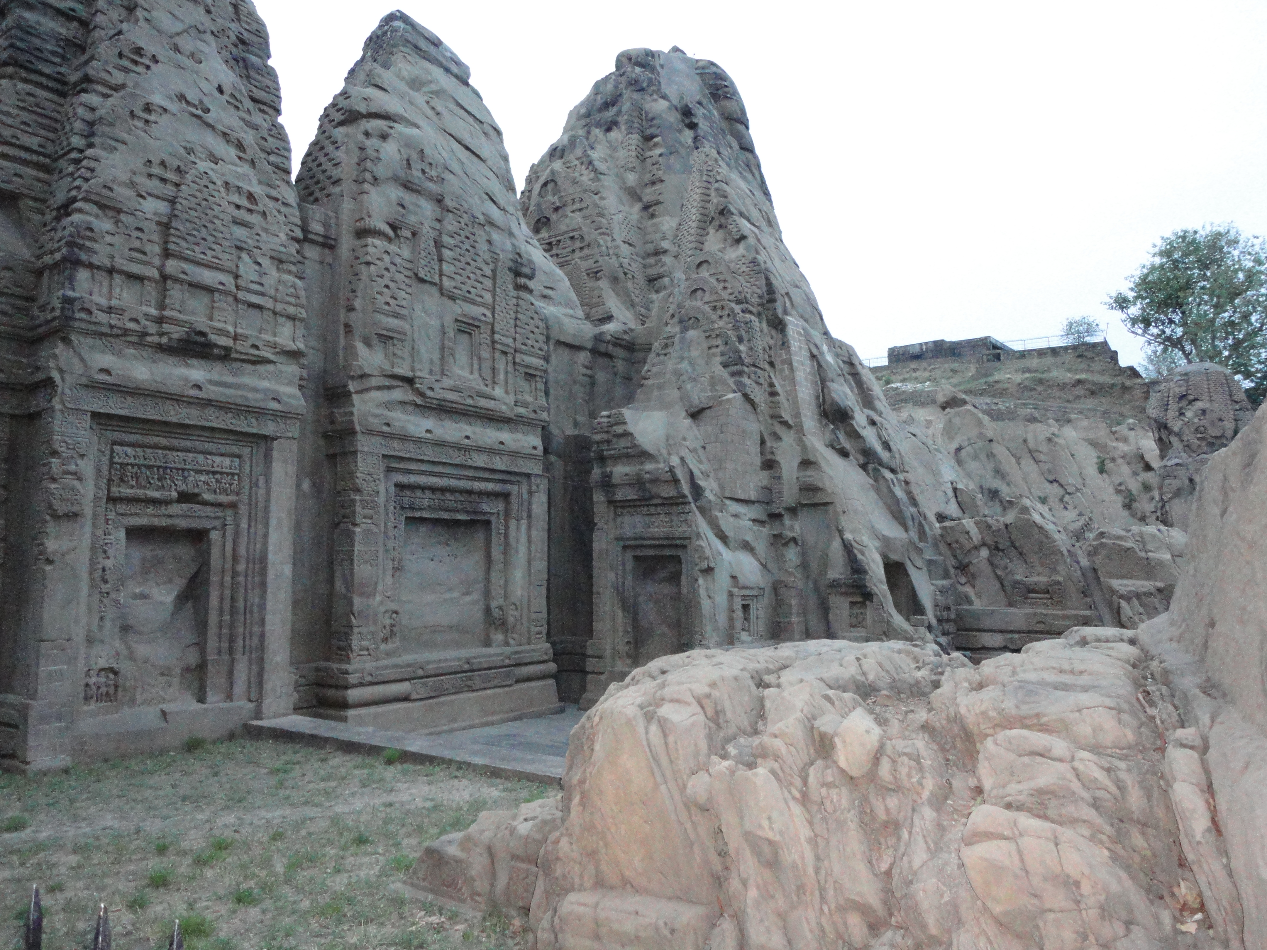 THIS IS A GROUP OF 15 RICHLY CARVED MONOLITHIC ROCK CUT TEMPLE IN HIMACHAL PRADESH STATE OF INDIA